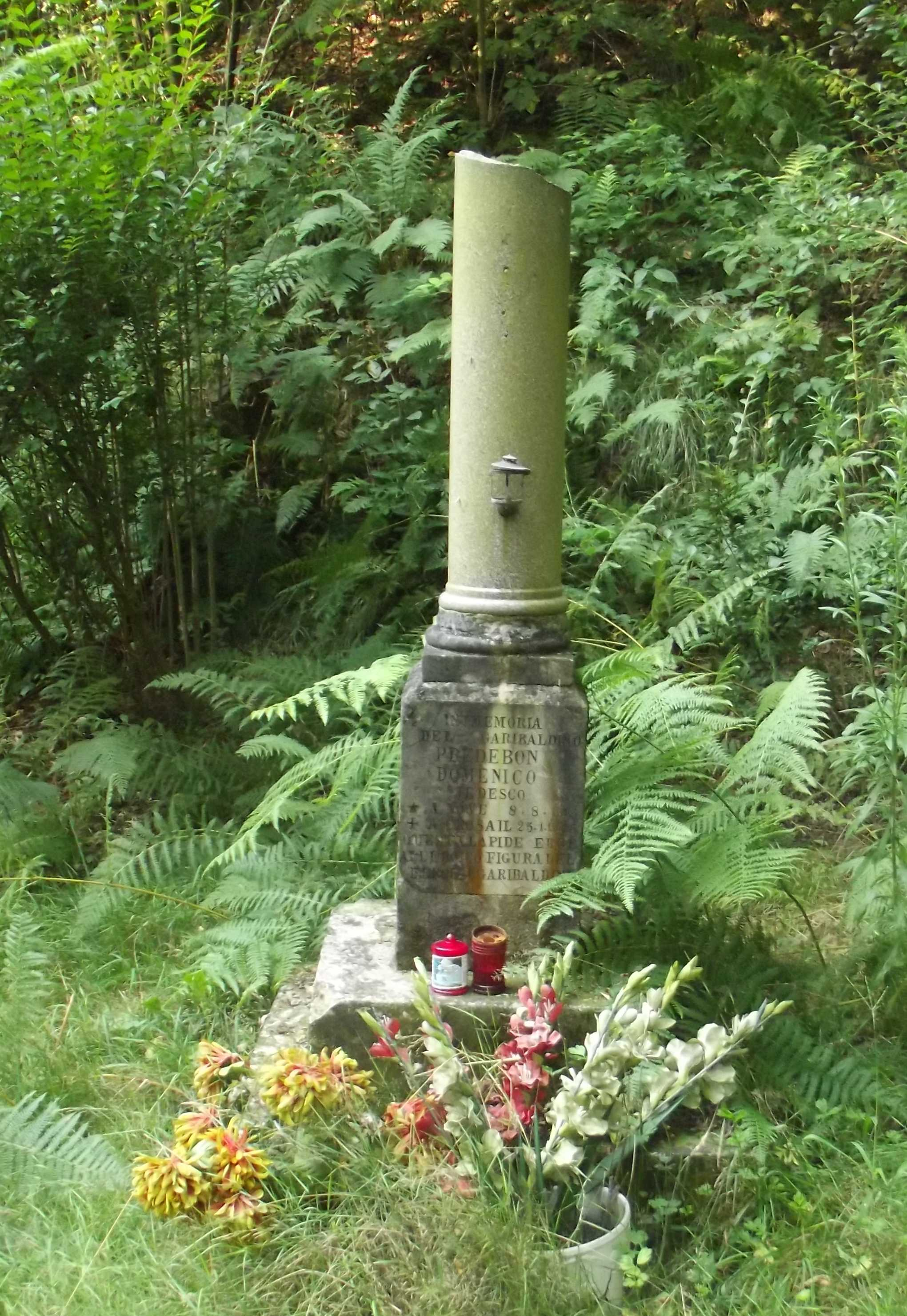 Crosa (BI, Italy): memorial of the partisan Domenico Predebon